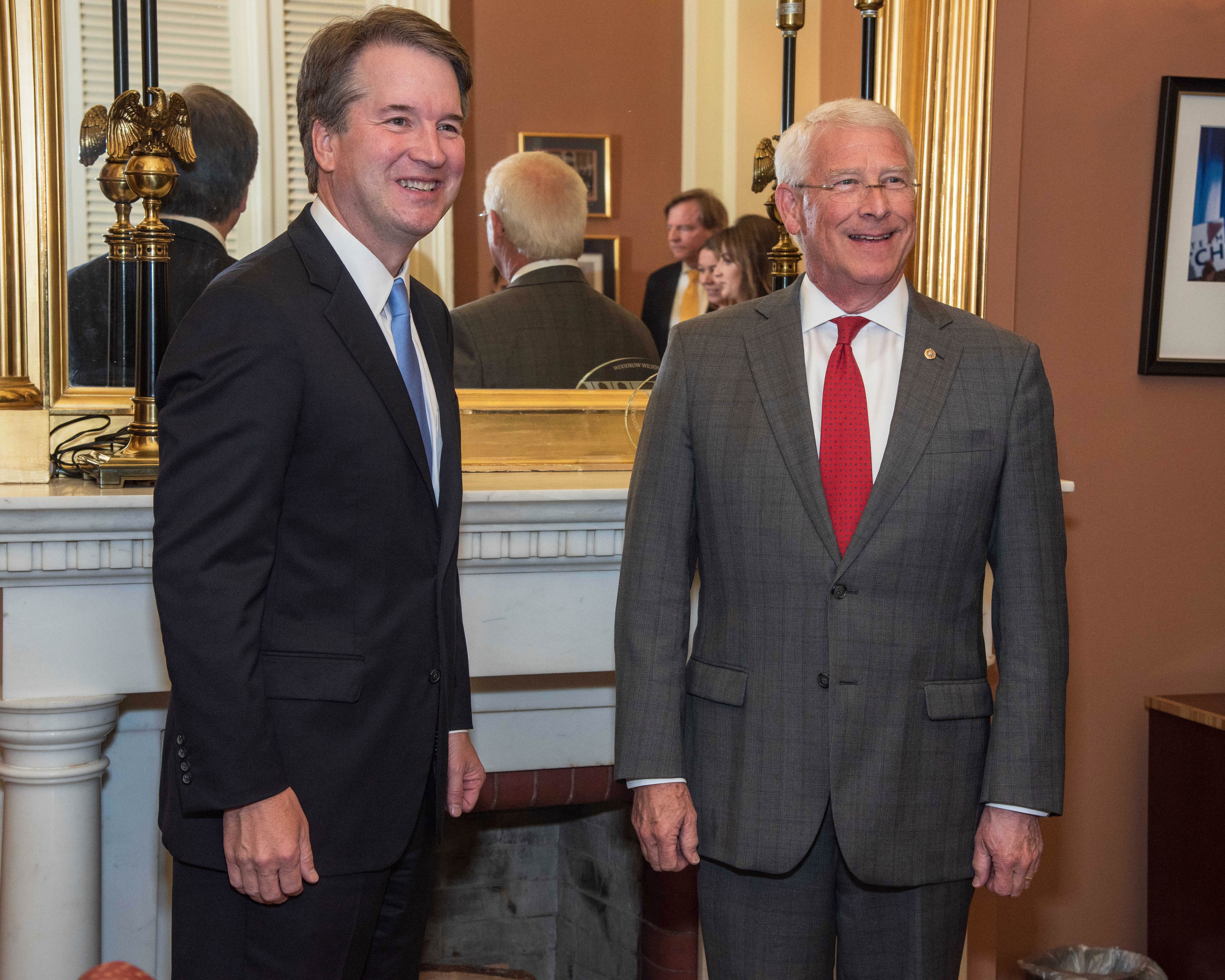 Roger Wicker Meets Supreme Court Nominee Judge Brett Kavanaugh